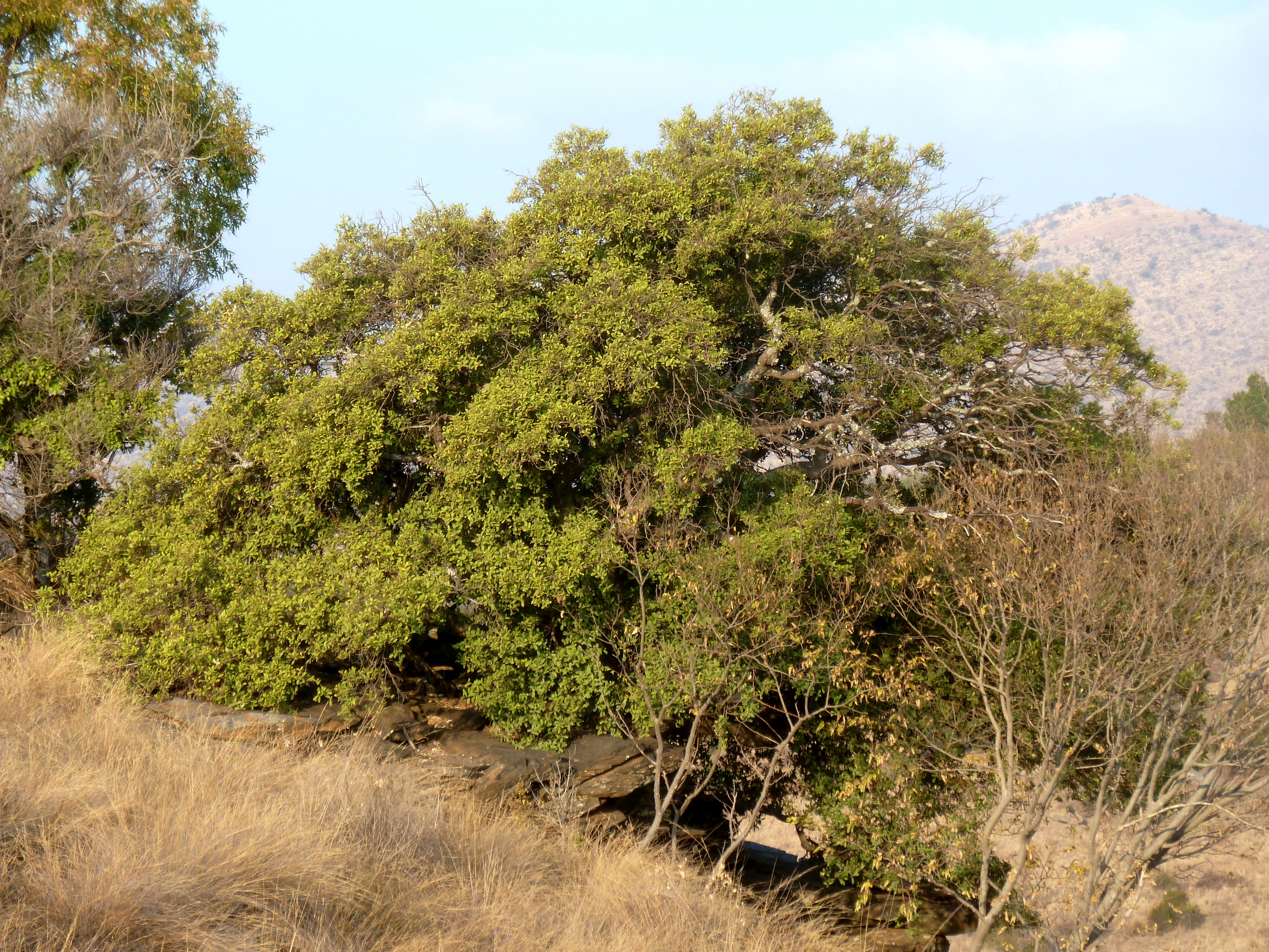 Habit of a Brittle-wood on the Phalandingwe trail, Pelindaba, South Africa. They often grow on cliff ledges.